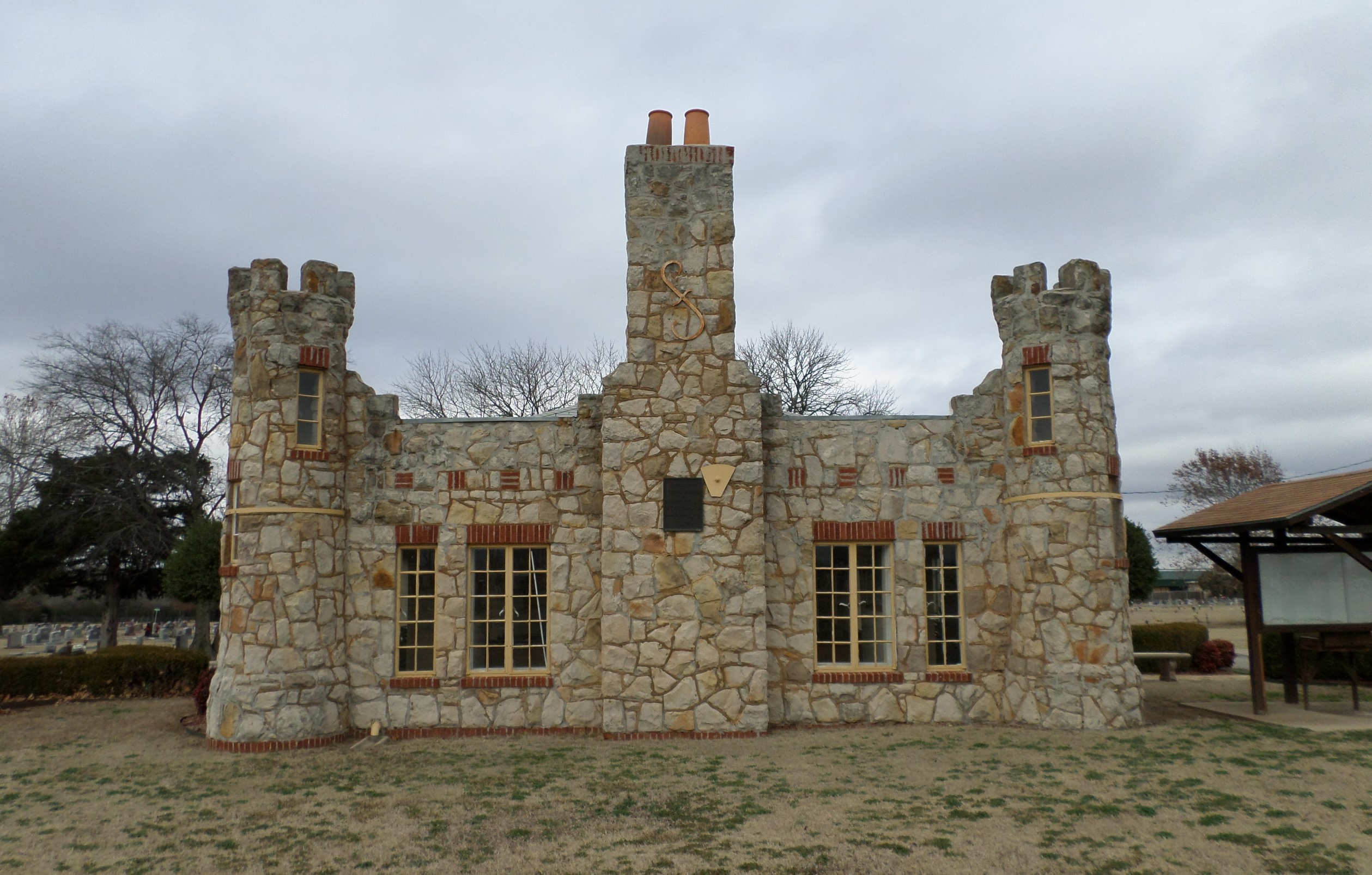 The Strother Memorial Chapel, located in the Maple Grove Cemetery, 1000 W. Strother Ave., Seminole, Oklahoma. It is listed on the National Register of Historic Places.